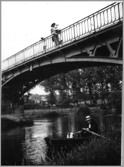 Martincourt-sur-Meuse's bridge around 1930.